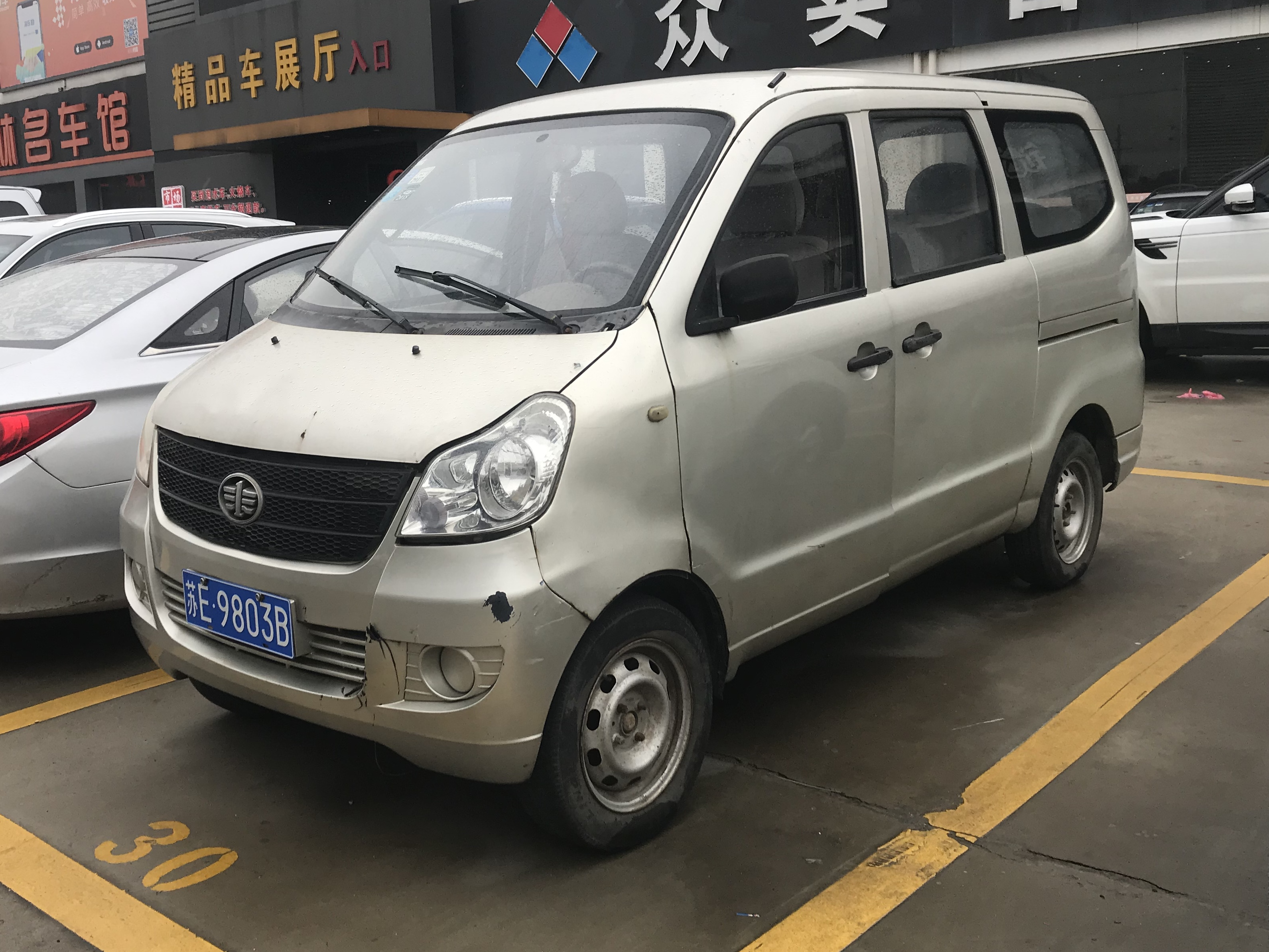 FAW Jiabao V70 front